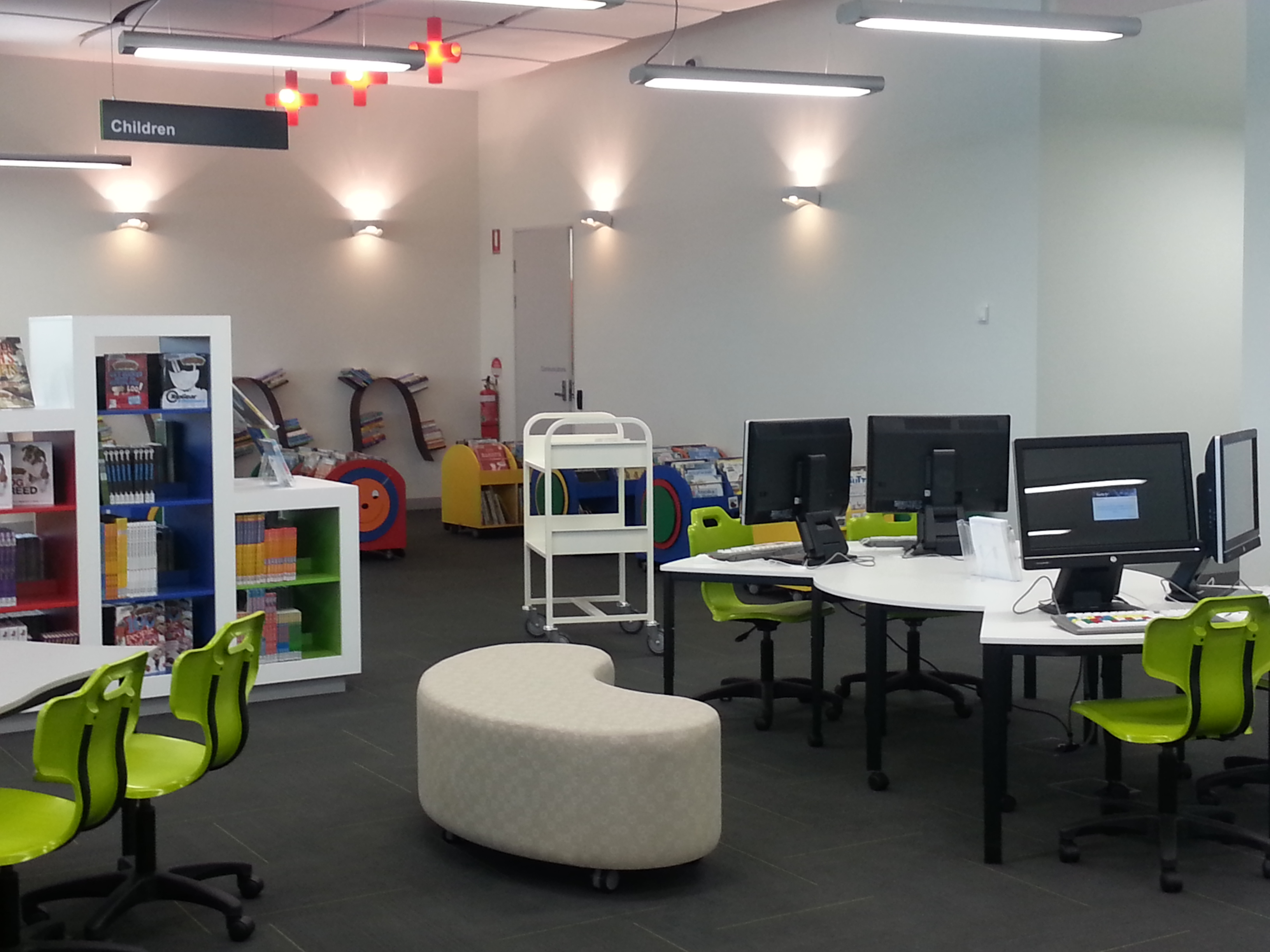 Childrens area of the Upper Coomera Library, Gold Coast